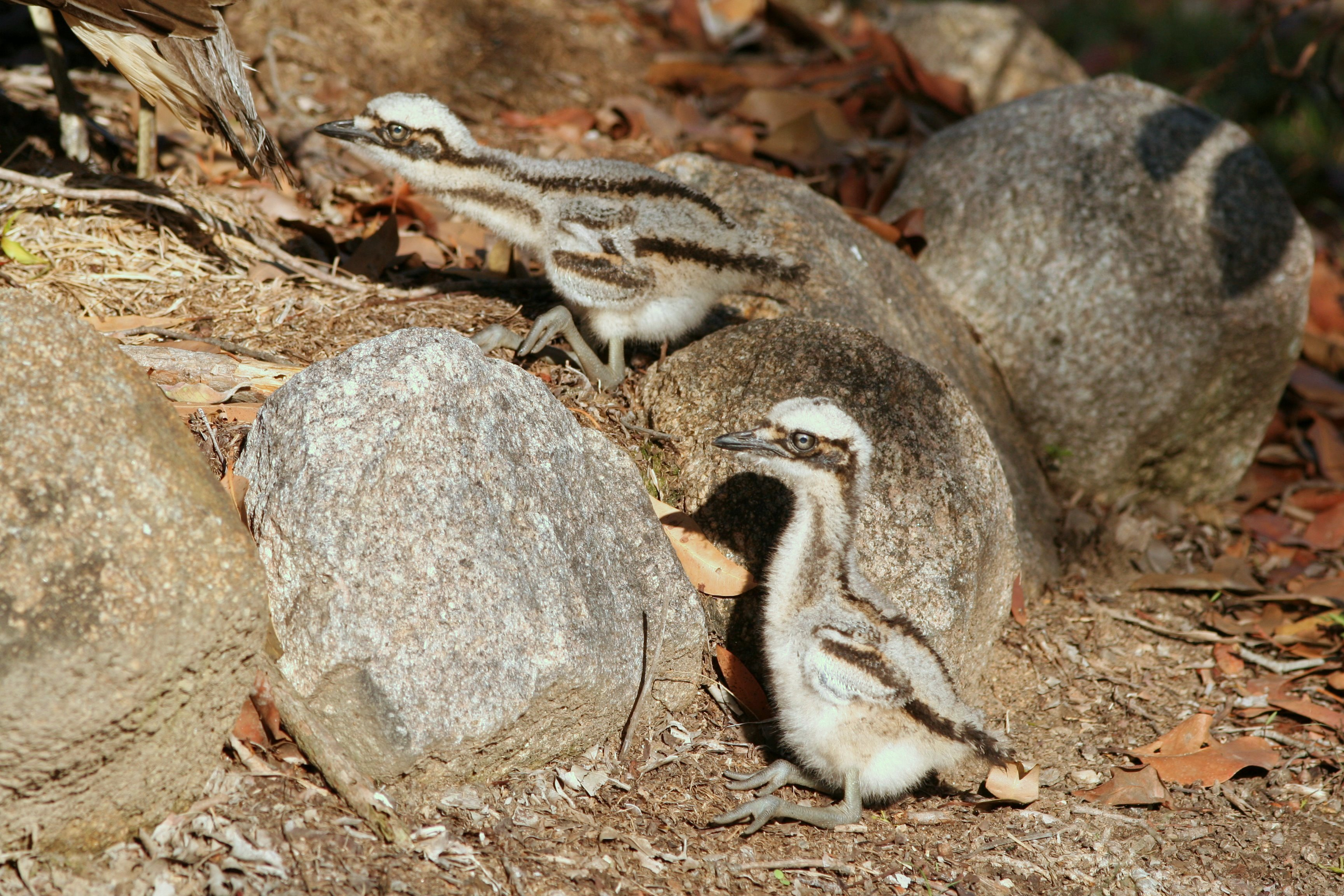 Bush Stone-curlew chicks, Burhinus grallarius